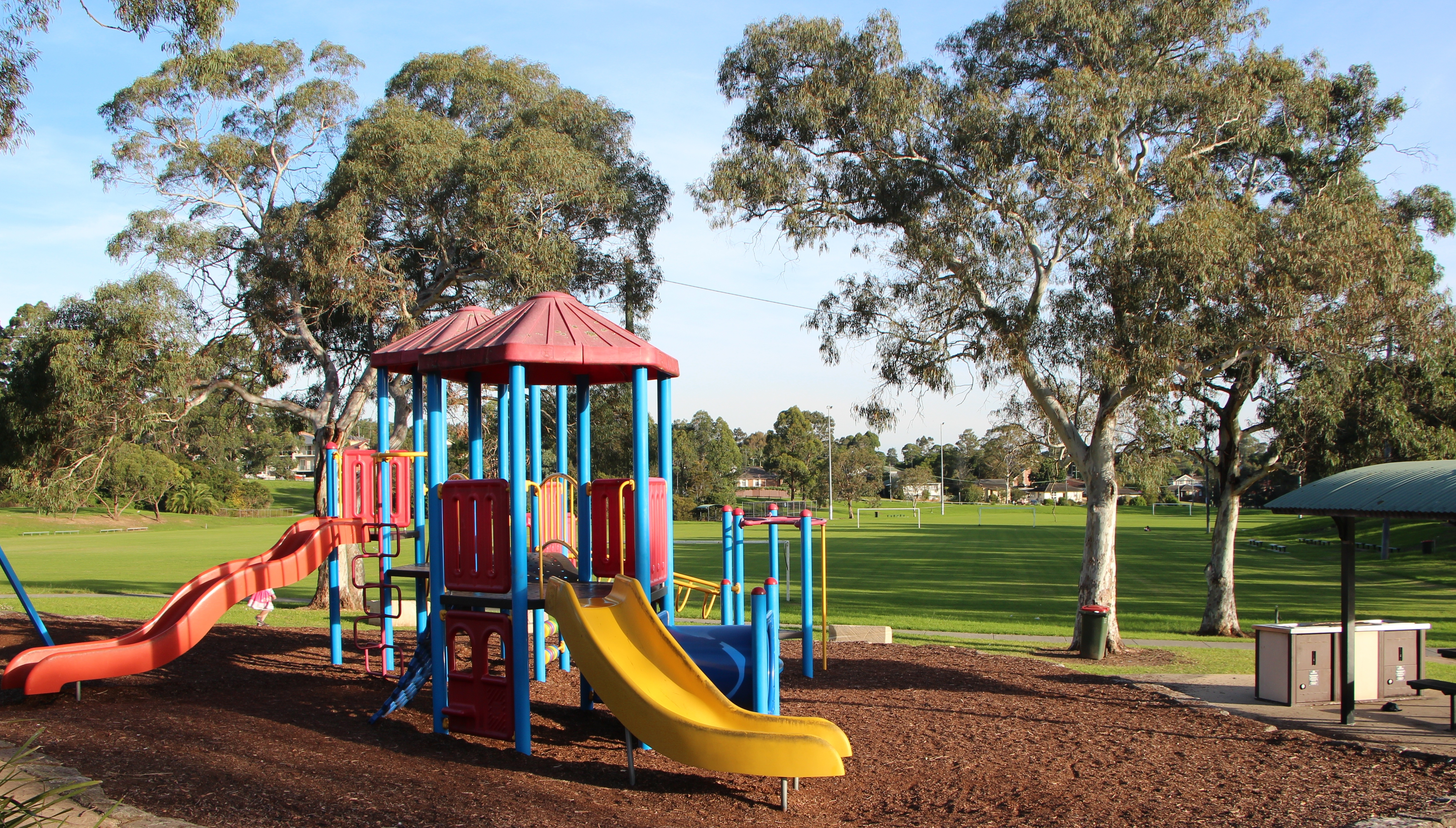 Childrens play equipment in Dundas Park, showing barbecue facilities and associated ovals behind.